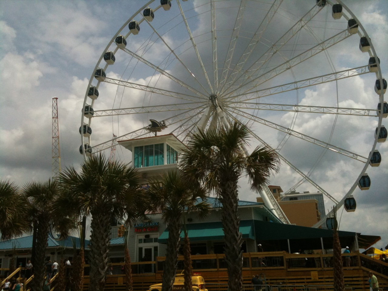 Jimmy Buffett's Landshark Bar and Grill at the Skywheel, Myrtle Beach, SC